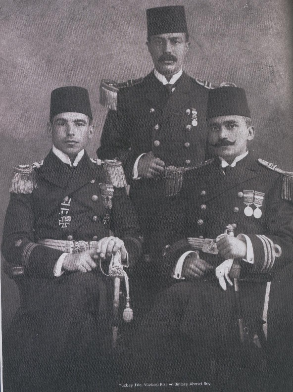 Kapitän zur See Rudolph Firle (second commander of destroyer Muavenet-ı Milliye), Yuzbasi Ali Riza (commander of torpedo boat Sultanhisar), and Binbashi Ahmed Saffed (Ohkay, commander of Muavenet-i Milliye)